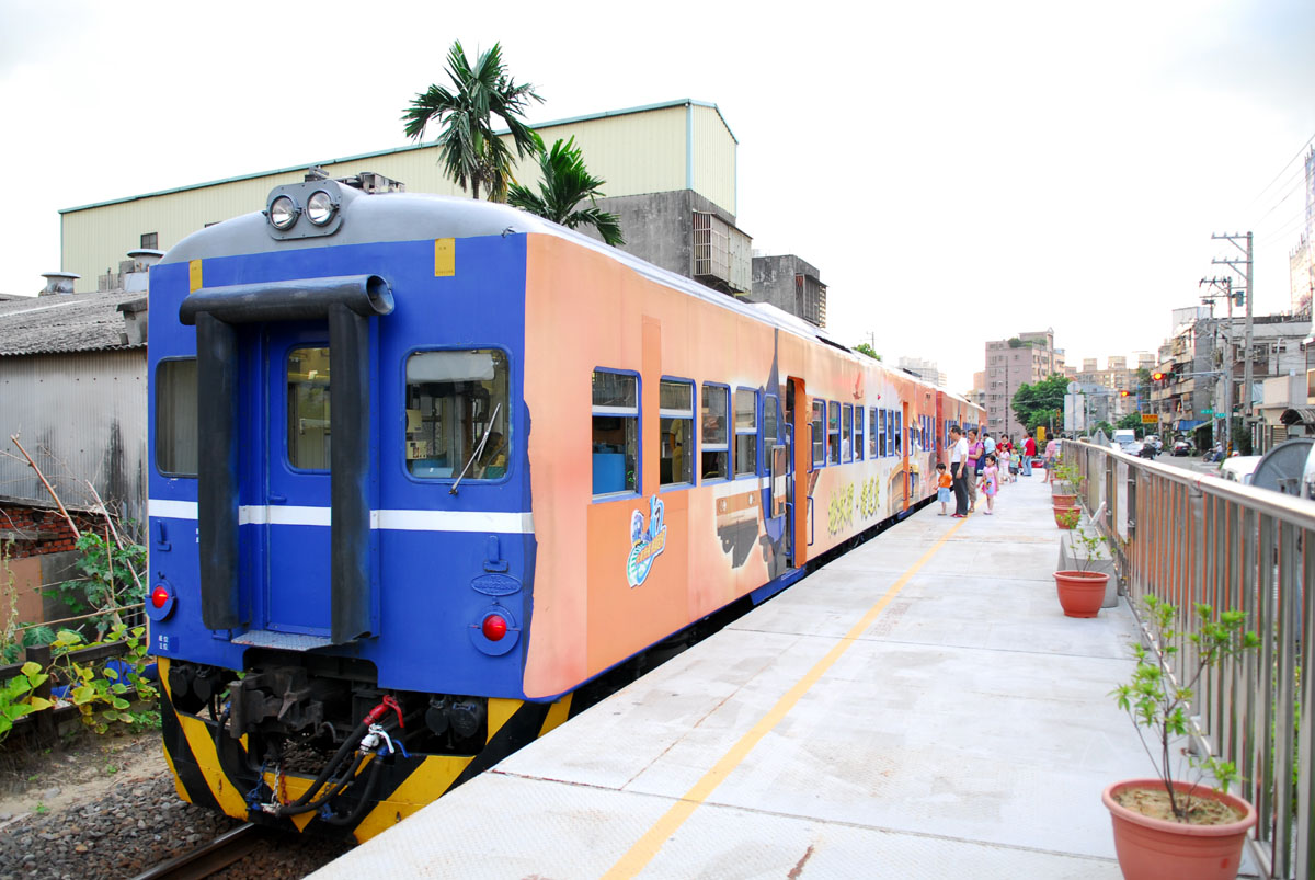 Nanshiang Station is a small station on Linkou Line. This station is surrounded by many high density residentials and electronic factories. This photo shows that the DR2510 diesel railcars are stopping in Nanshiang Station.